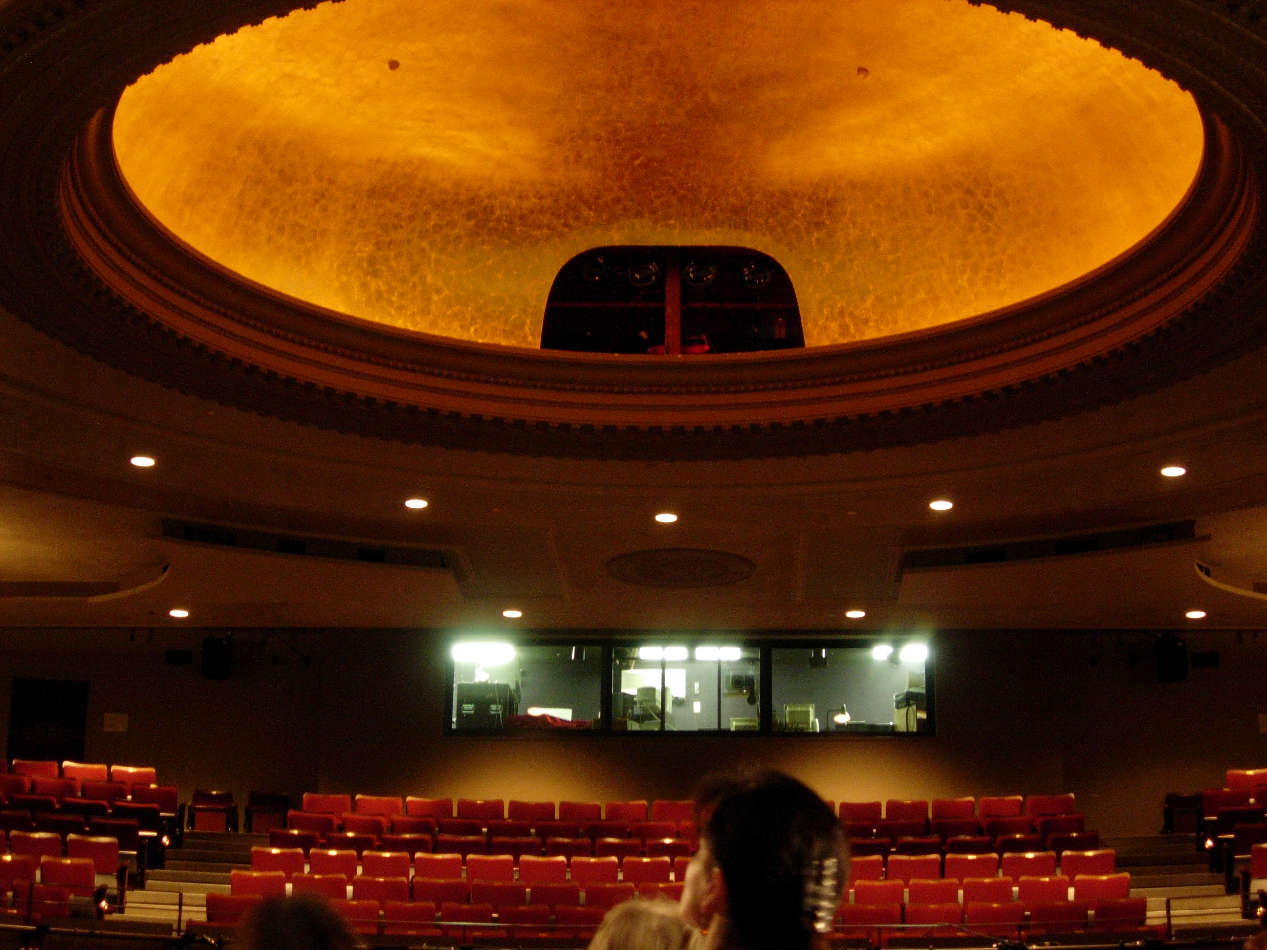 The dome inside the Stanley Theatre